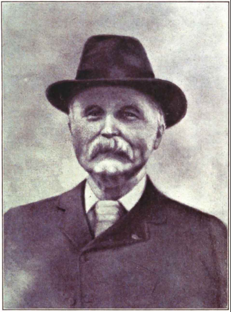 John Rock, picture possibly 1896. Picture used in several publications.